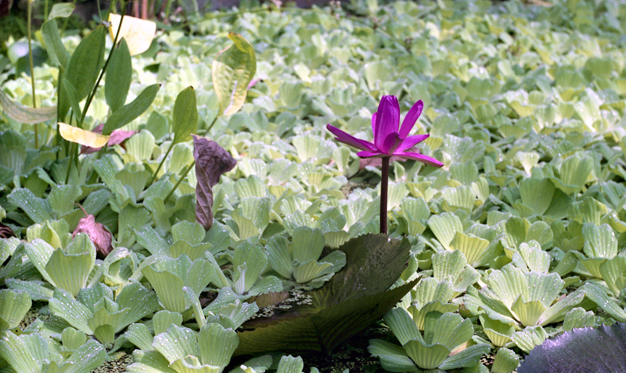 National M. M. Grishko botanical garden (Kiev, Ukraine), in tropical greenhouse